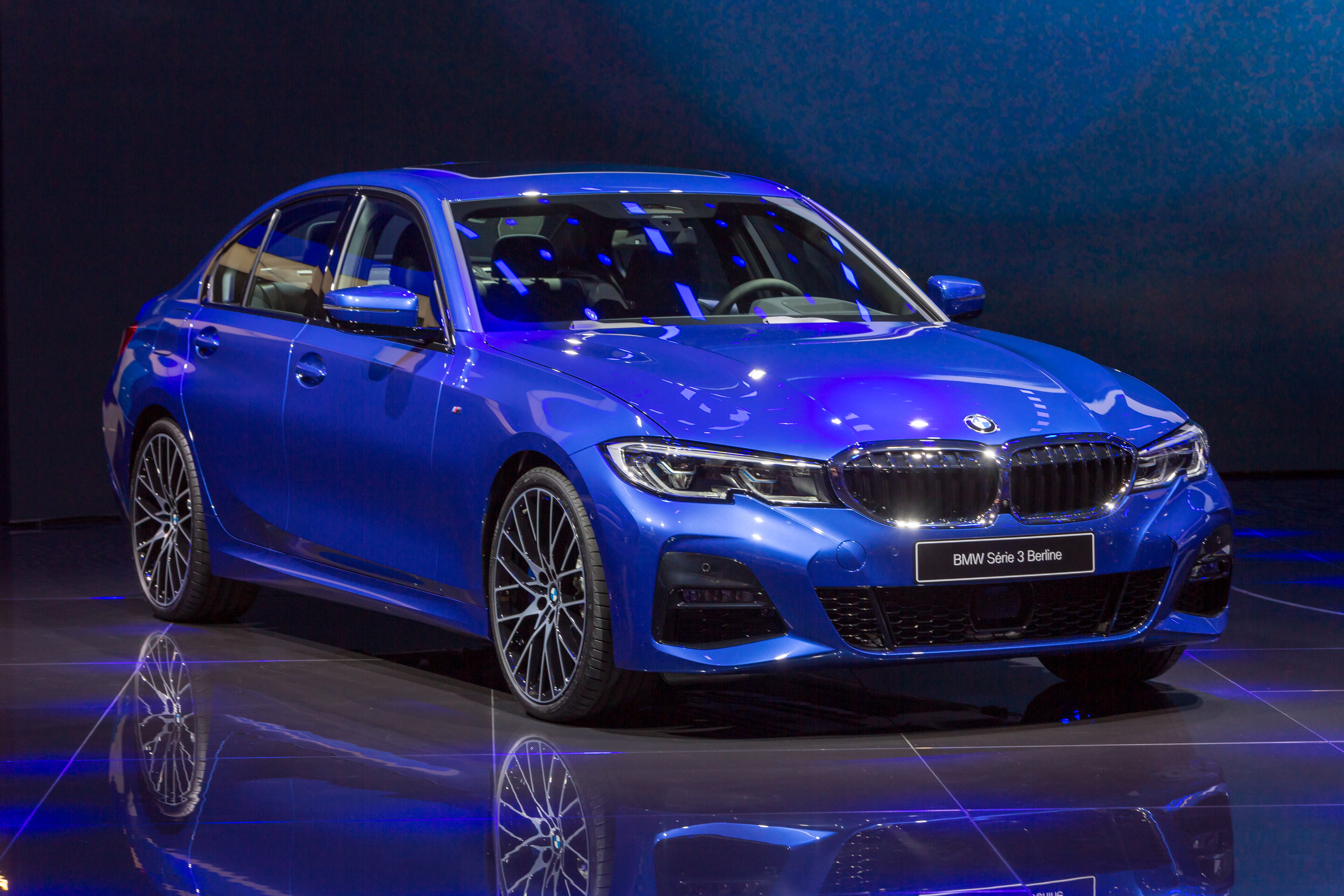 BMW G20, Modial Paris Motor Show 2018